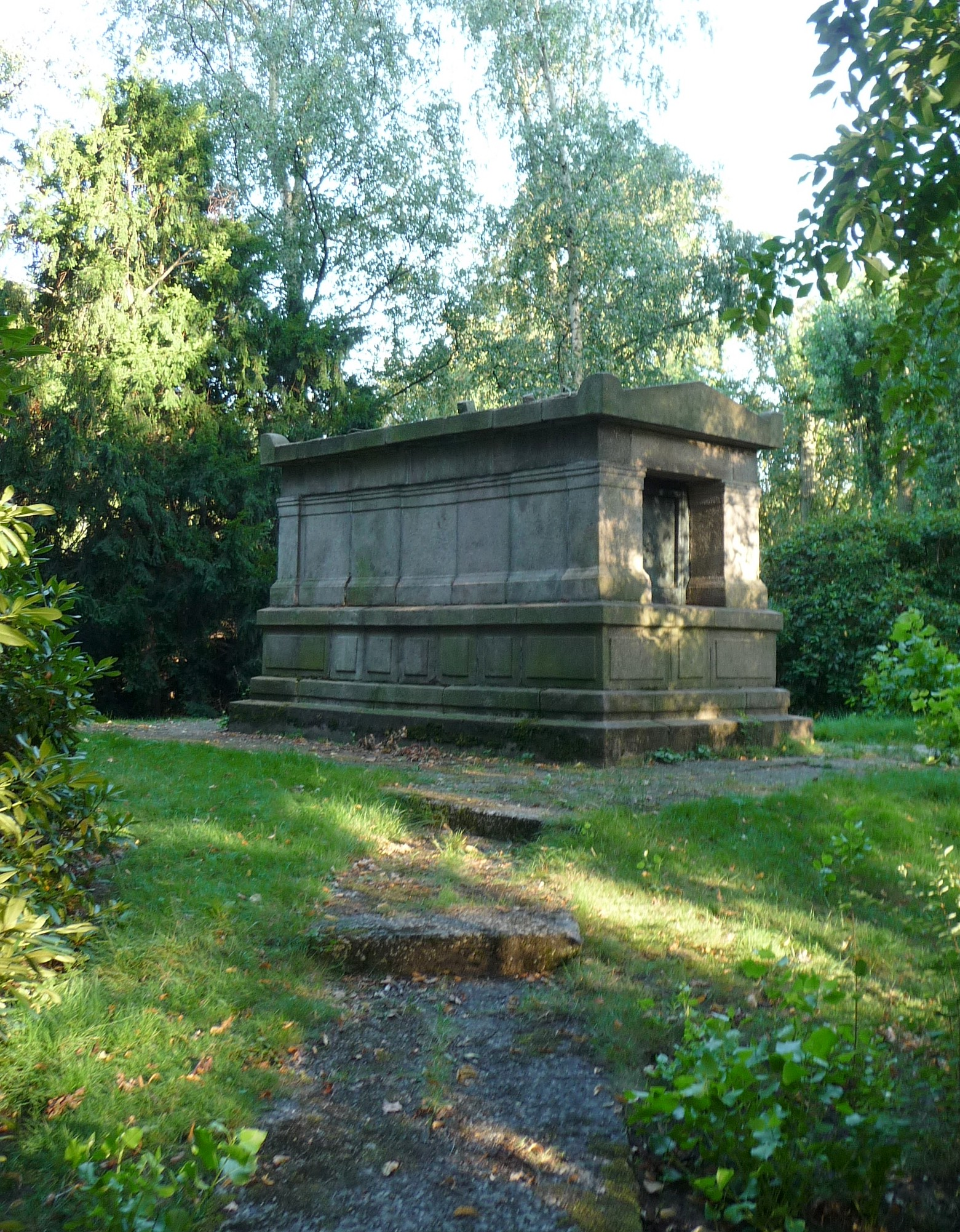 Old cemetery in Hamburg-Hamm; Mausoleum from Karl Sieveking and other members of the families Sieveking and Chapeaurouge.